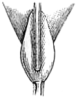 Lactoris fernandeziana Philippi. basal part of leaf showing stipuls forming sheat around the internodium